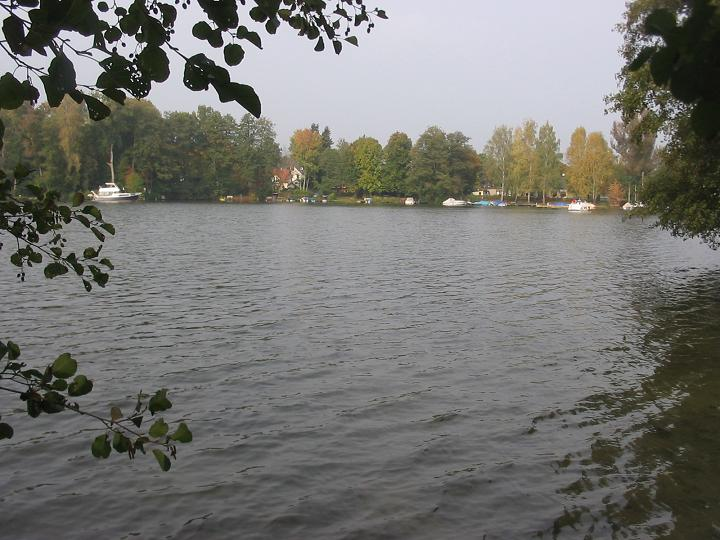 Krossinsee (lake) in Wernsdorf. Wernsdorf is a part of the town Königs Wusterhausen in the district Dahme-Spreewald, state Brandenburg, Germany.